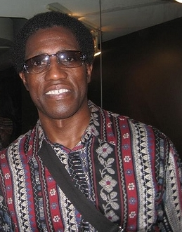 Wesley Snipes in September 2008.